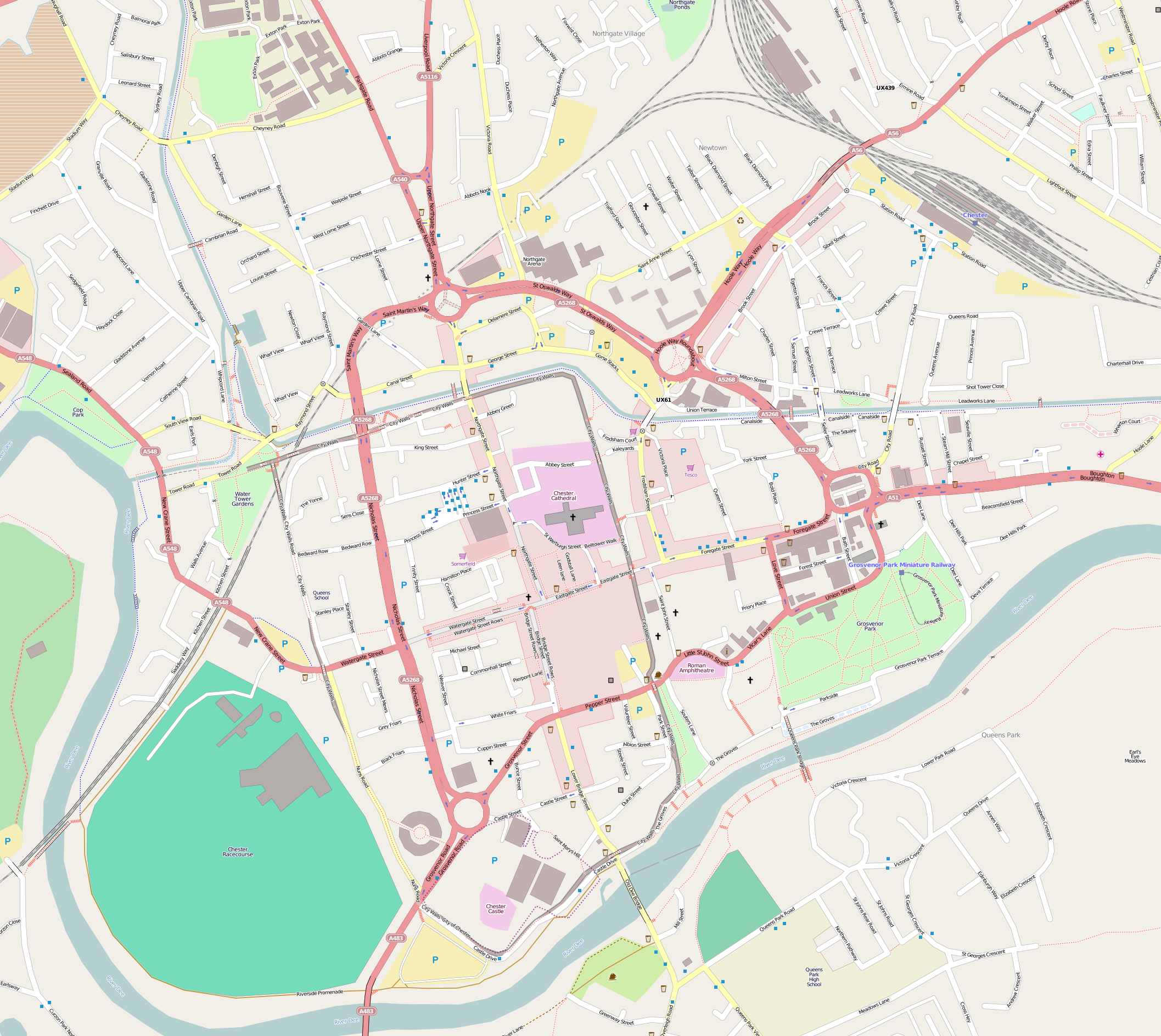 Map of Chester Central Geographic limits: N: 53.20026° S: 53.18329° W: -2.90631° E: -2.87413°